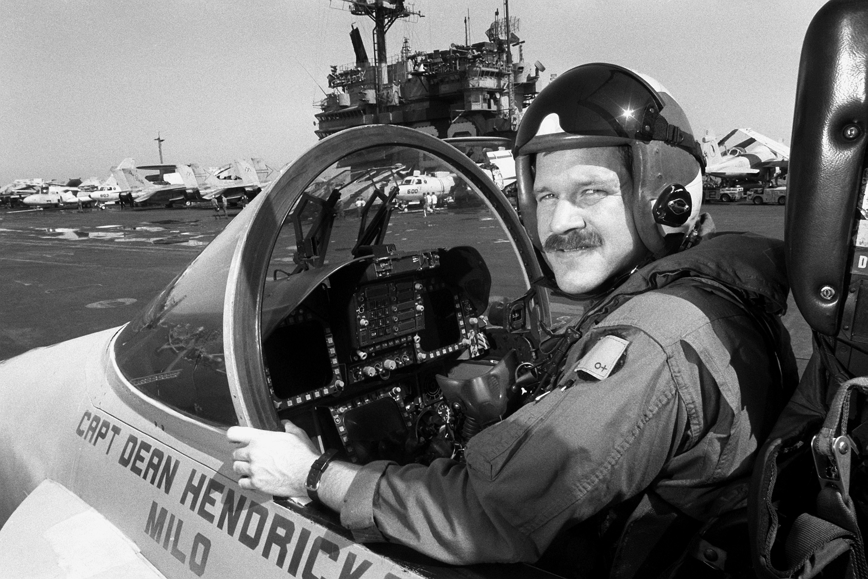 Lt. Cmdr. Mark Fox of Strike Fighter Squadron 81 (VFA-81) sits in the cockpit of the F/A-18C Hornet aircraft that he was flying when he became the first coalition pilot to shoot down an Iraqi MiG aircraft during Operation Desert Storm. VFA-81 is based aboard the aircraft carrier USS SARATOGA (CV-60).